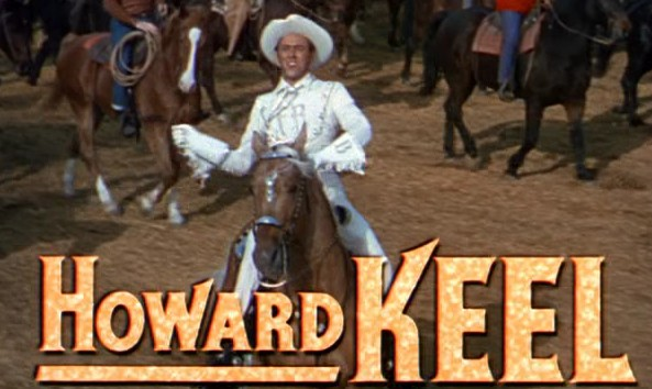 Cropped screenshot of Howard Keel from the trailer for the musical film Annie Get Your Gun (1950).